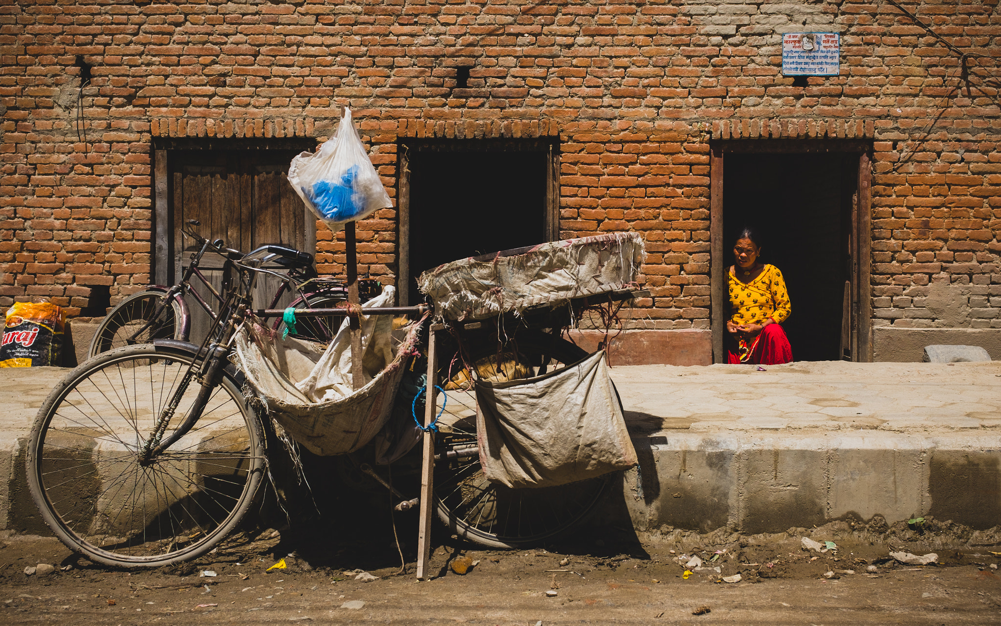 500px provided description: Somewhere near Kathmandu [#travel ,#500px ,#nepal ,#flickr ,#facebook ,#street photography ,#google+ ,#X100S]